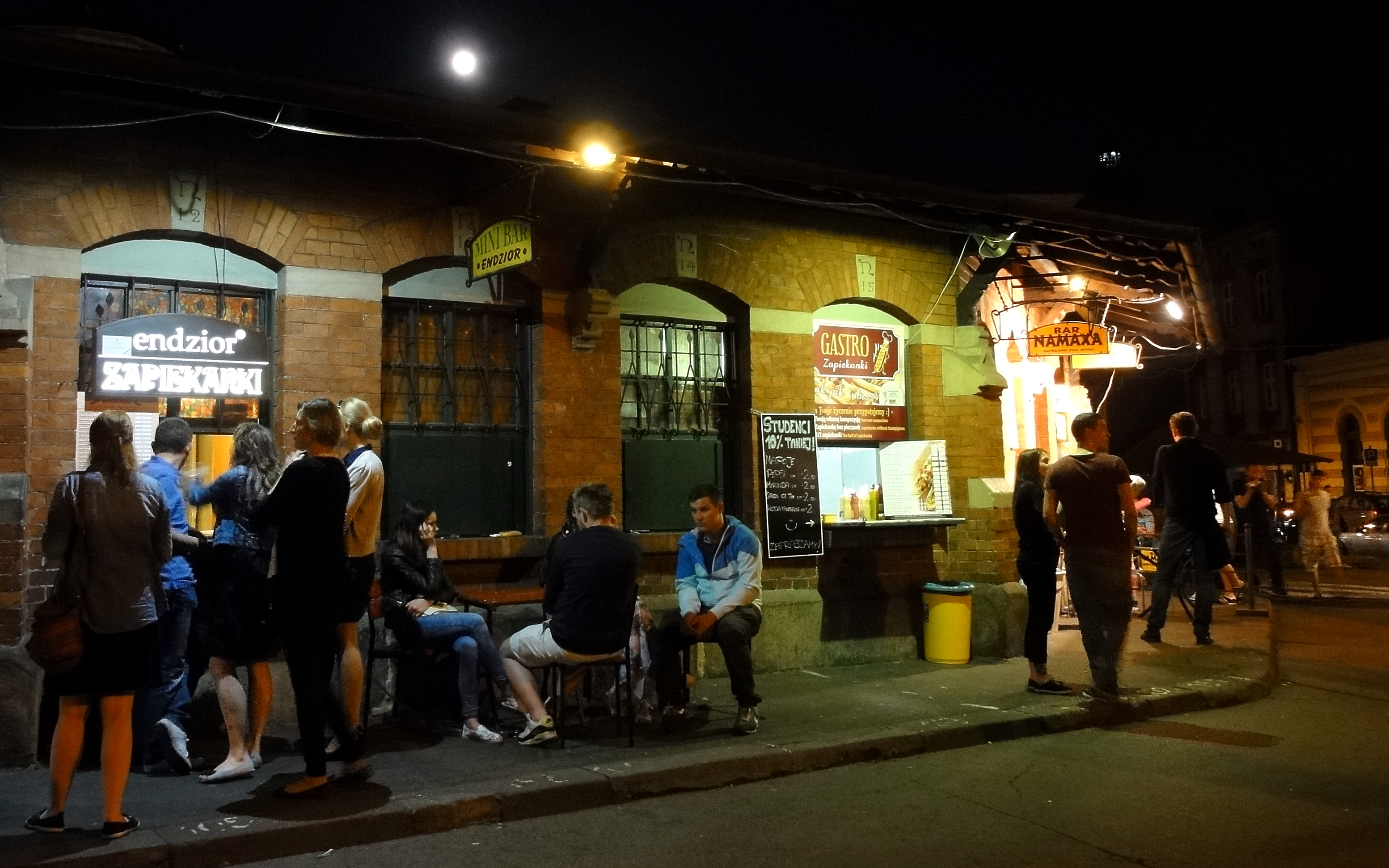 Outdoor food court serving zapiekanki and other street food in Plac Nowy, Kazimierz, Kraków, Poland